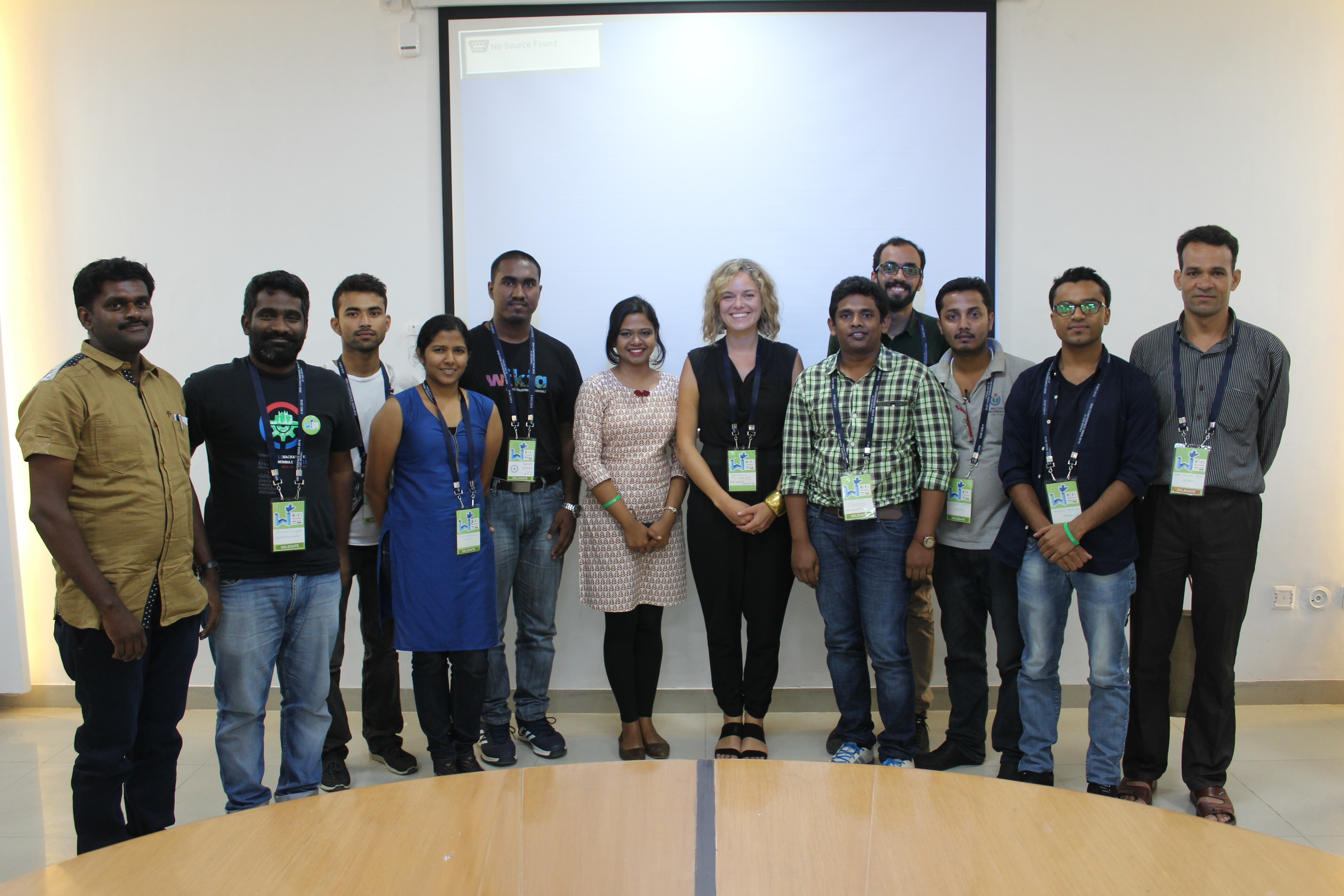 Group photo of Wikimedians Meetup With Katherine Maher - WikiConference India -CGC